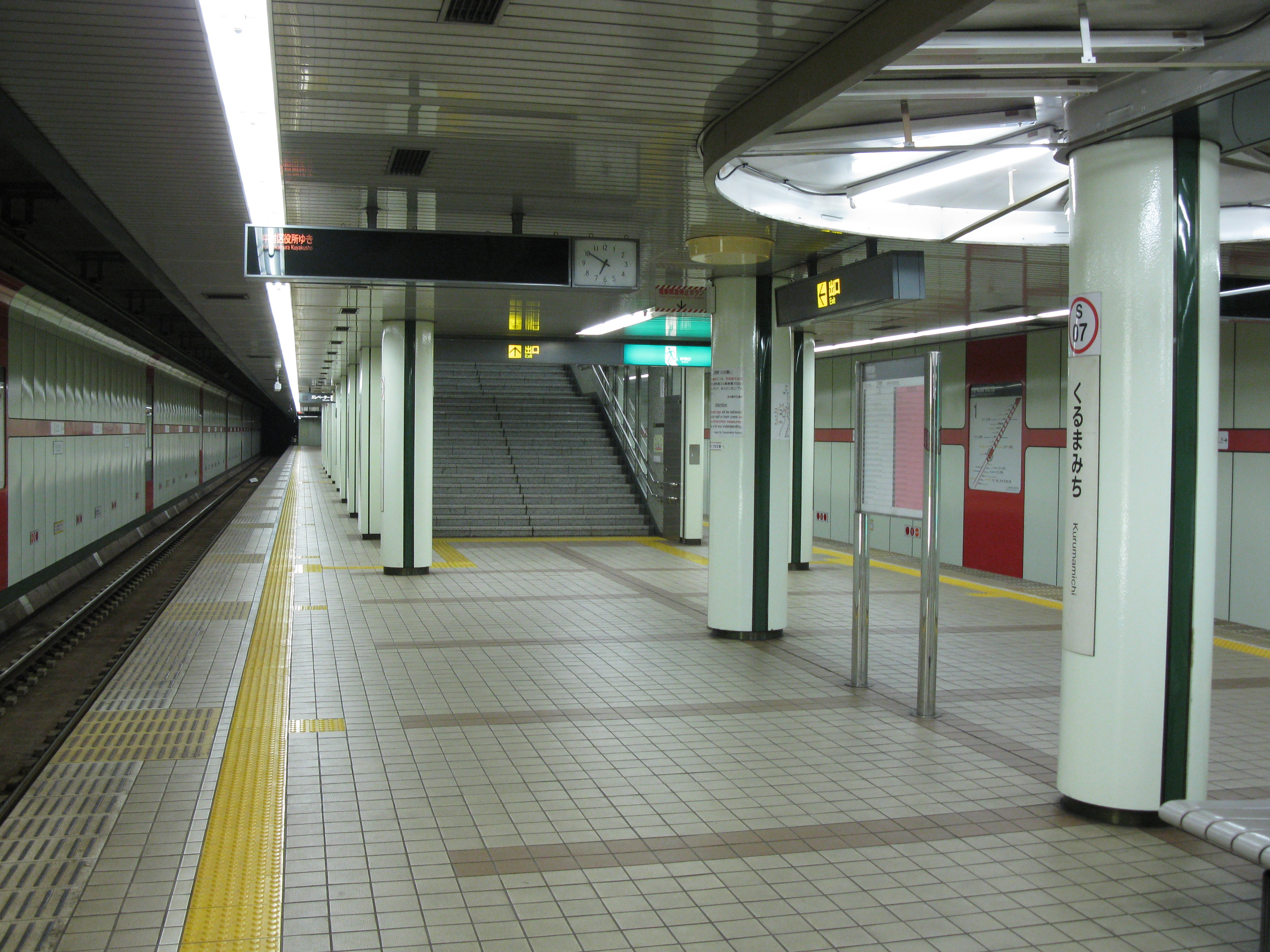 Kurumamichi Station platform (Nagoya Municipal Subway Sakura-dōri Line)